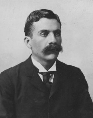 Alfred Wellington Carter (1867–1949) was a lawyer and judge in the Republic of Hawaii and the Territory of Hawaii who managed the Parker Ranch. He is shown here when appointed to a military commission investigating the 1895 counter-revolution.